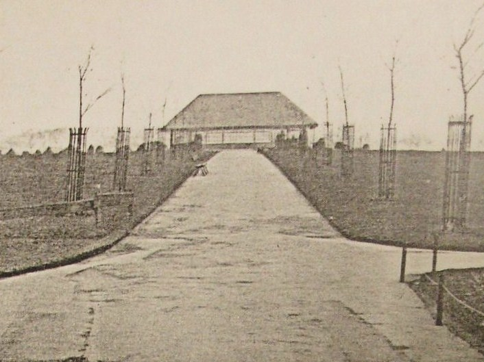 The Great Shelter in Selly Oak Park, Selly Oak, from the Souvenir Programme for the Selly Oak and Bournbrook Shopping Week Festival, May 11th to 17th, 1911, inclusive (The Selly Oak and Bournbrook Traders’ and Ratepayers’ Association, 1911), p. 39.